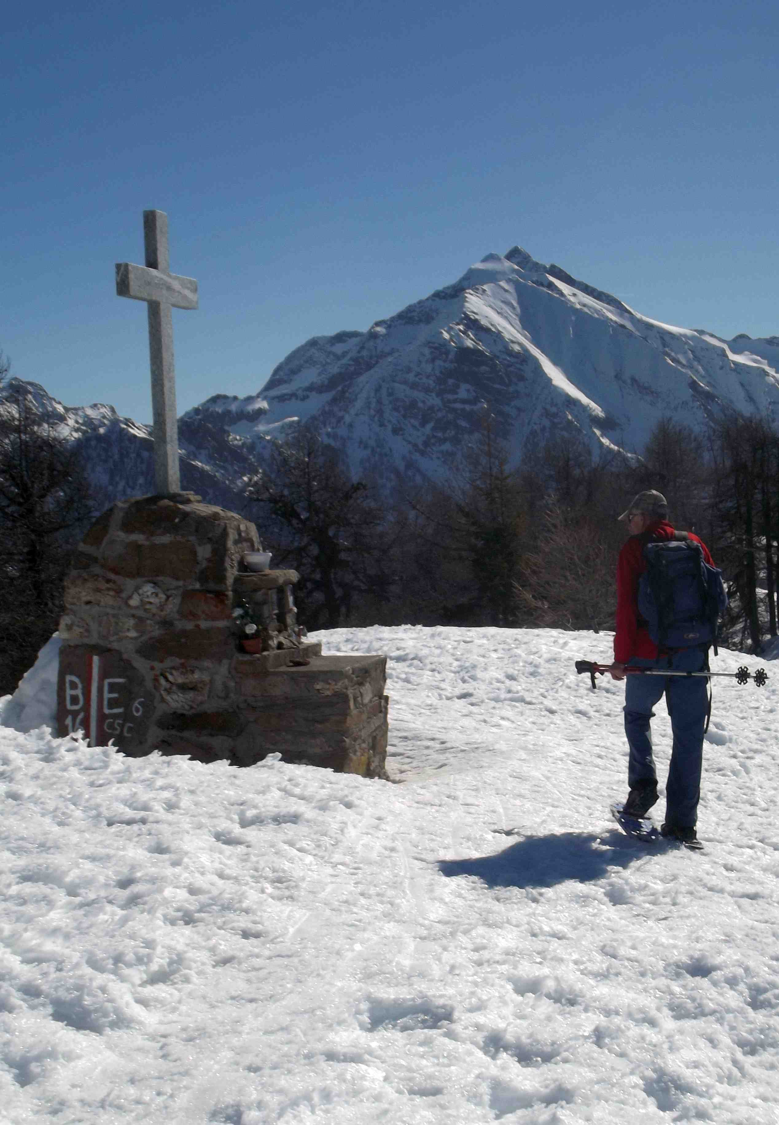 Testa di Comagna (AO, Italy): summit cross and, in the background, mount Nery